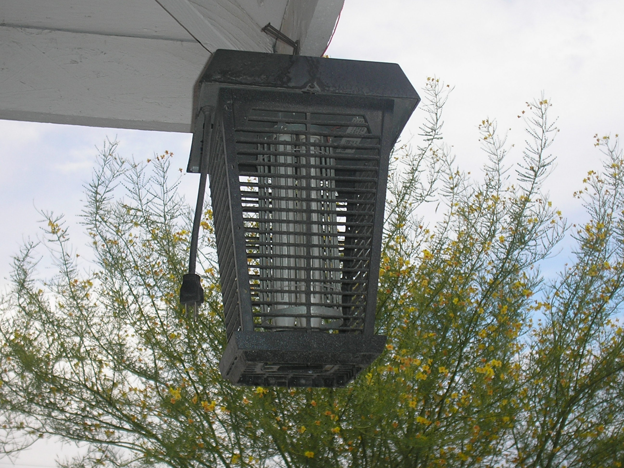 A bug zapper